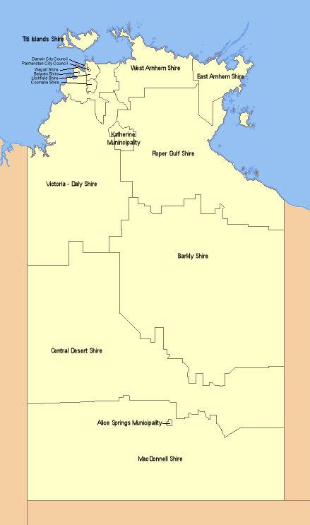 New Northern Territory Local Government Names